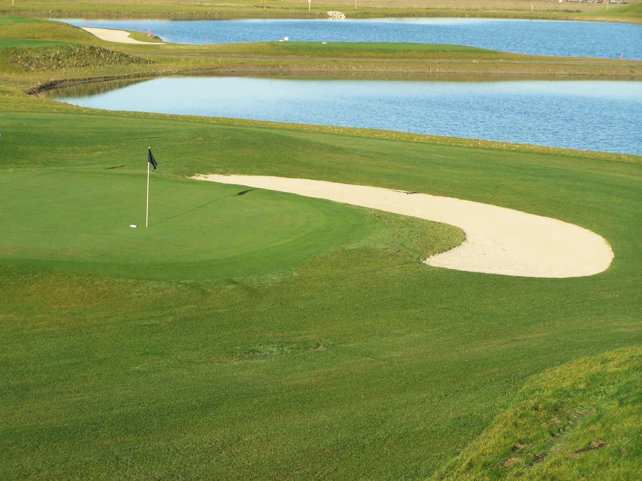 Merignies golf picture